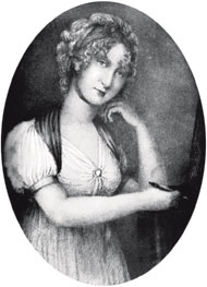 Lucie Henriette Dillon, Marquise de la Tour du Pin, a French memorialist, as a young woman.